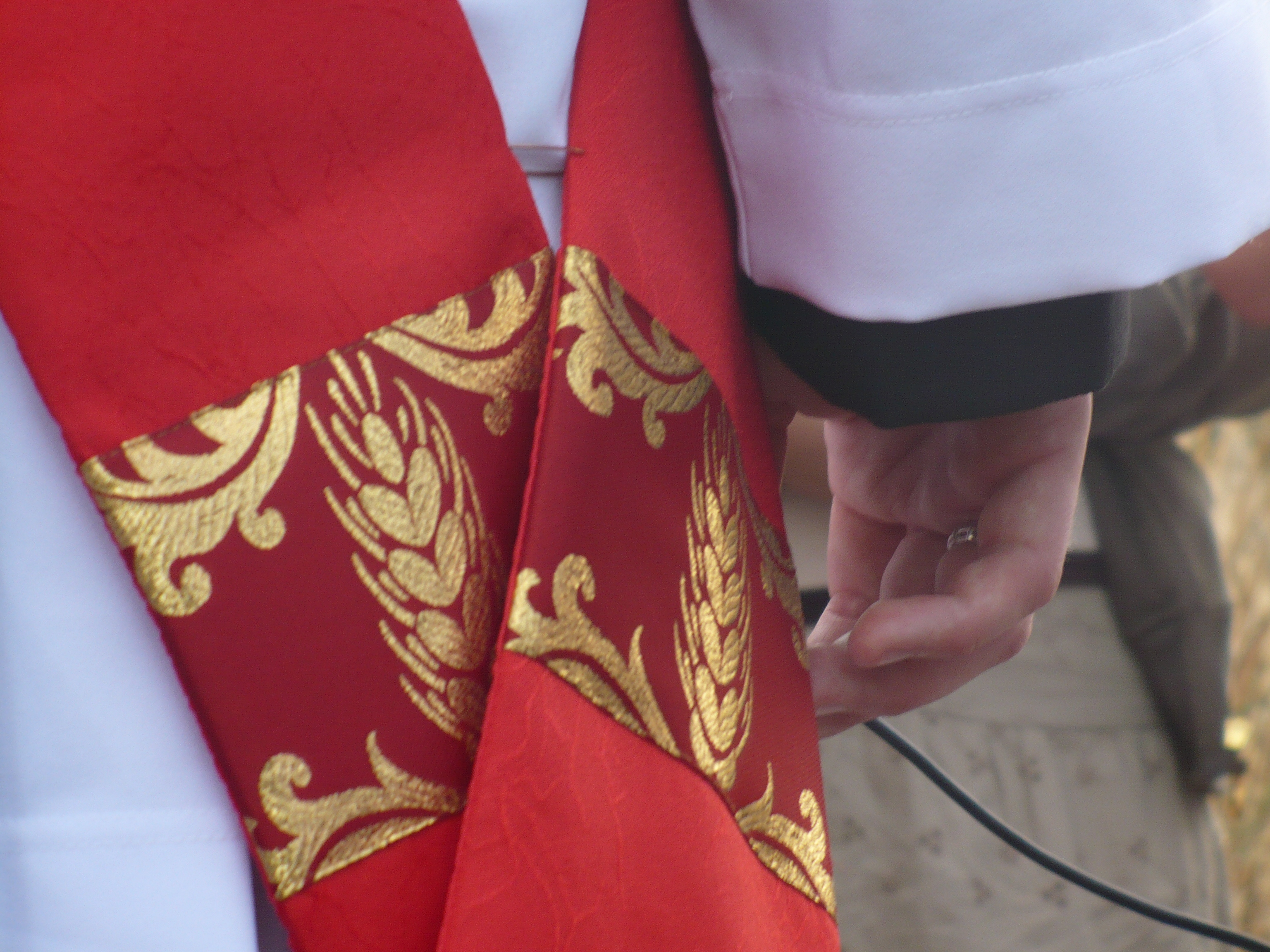 Stole